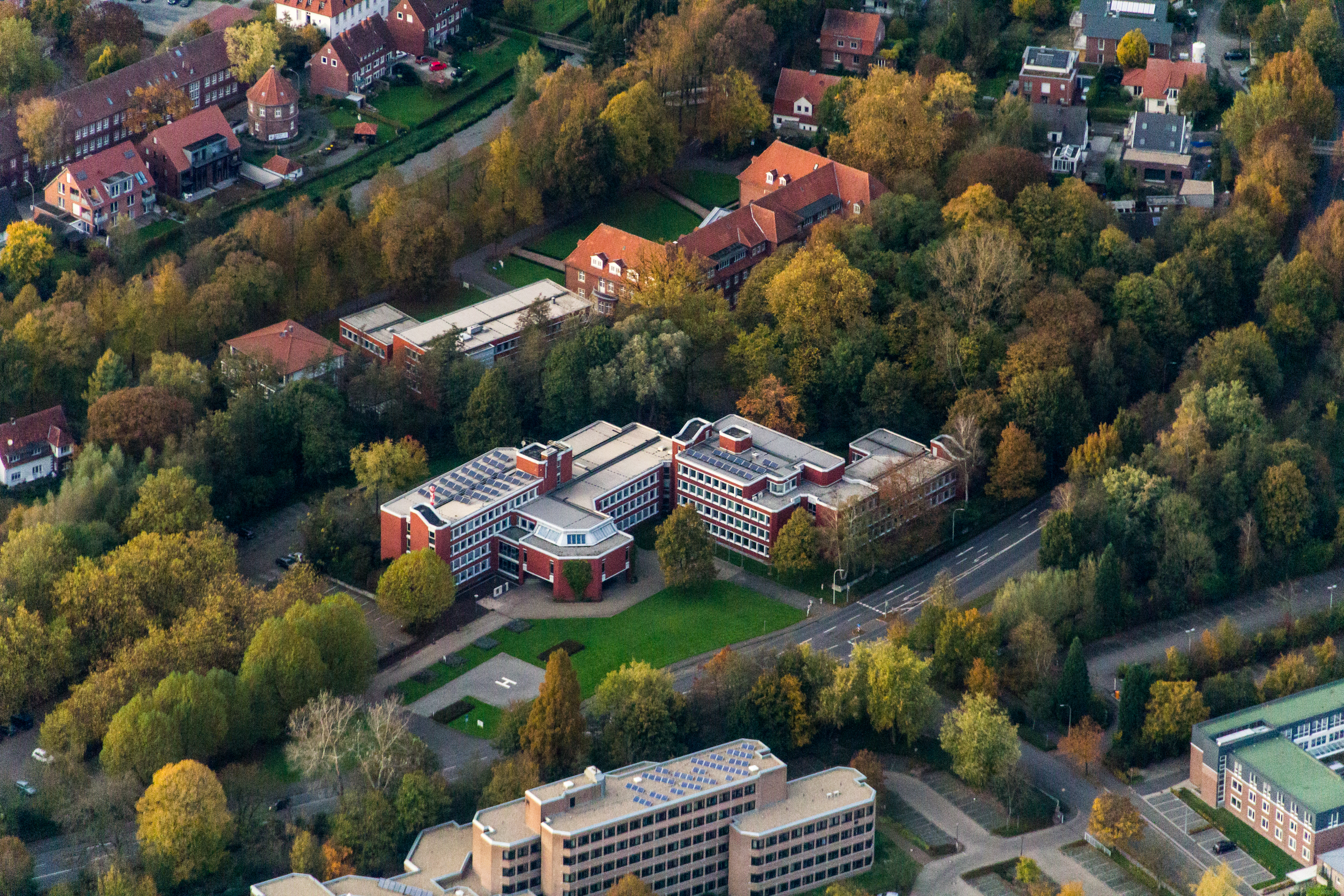 Kreisverwaltung, Coesfeld, North Rhine-Westphalia, Germany